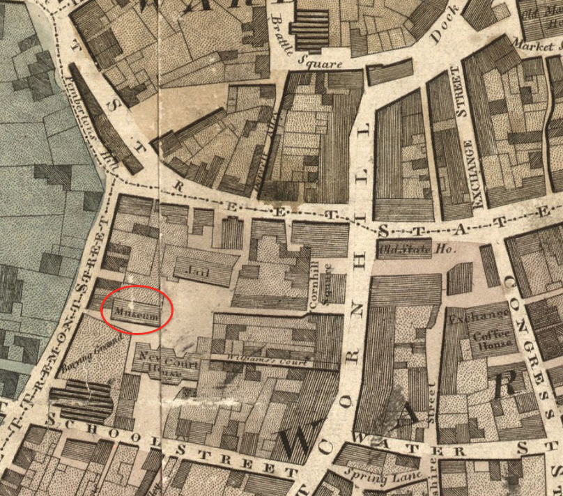 Detail of 1814 map of Boston by John Groves Hale, showing location of the Columbian Museum off of Tremont Street.